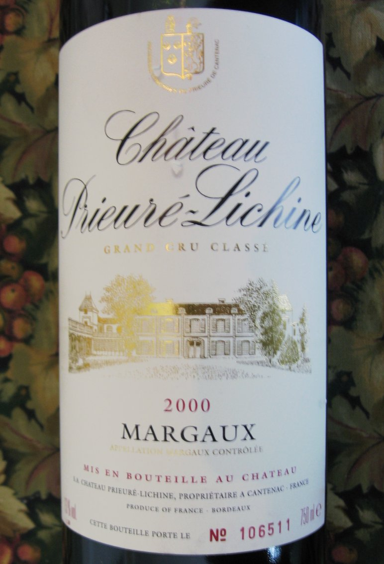 Label from a bottle of 2000 Chateau Prieure-Lichine